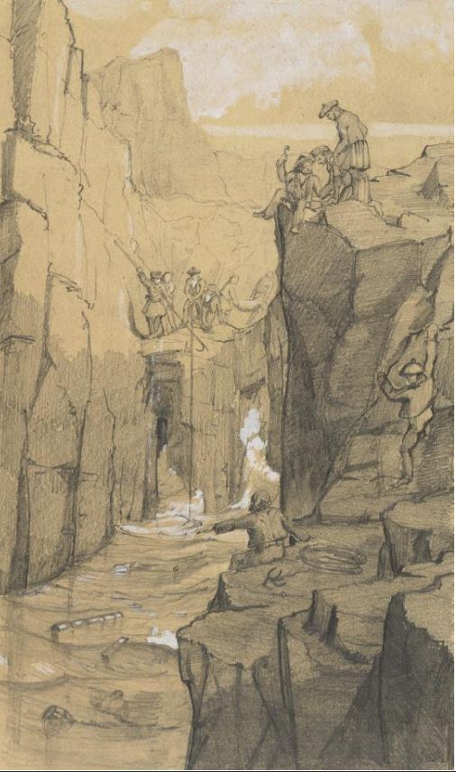 Fishing out the bodies of the Exmouth by John Francis Campbell. The loss of the emigrant ship Exmouth Castle (ship, 1818) on 28 April, 1847 is one of the most tragic of all of the Islay shipwrecks. The ship owned by Mr. John Eden of South Shields had departed from Londonderry bound for Quebec on Sunday 25 April with two hundred and forty emigrants plus an additional three women passengers and eleven crew aboard. A memorial was erected near Sanaigmore Bay as a reminder of this terrible tragedy. This memorial is dedicated to the memory of 241 Irish emigrants who lost their lives on the 28th April 1847, when the brig 'The Exmouth of Newcastle' out of Derry and bound for Quebec Canada at the time of the great famine, was wrecked on the NW coast of Islay (on the southern side of Coul Point). 108 bodies, mostly women and childeren (63 under the age of 14, and 9 infants) were recovered and are buried under the soft green turf of Traigh Bhan. May their souls rest forever in the Peace of Christ. Some controversy about the name of this ship, Exmouth, or Exmouth Castle.